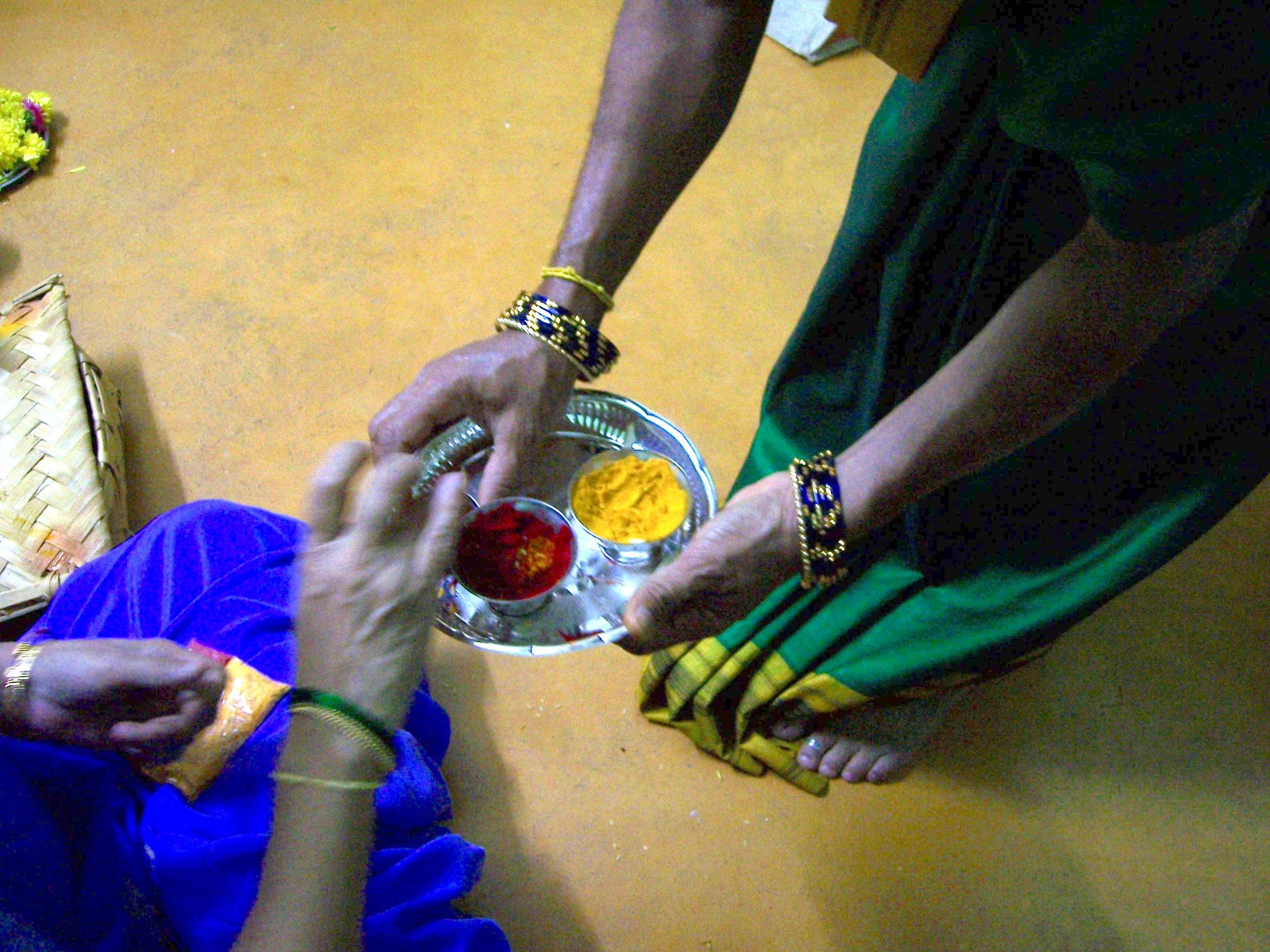 Gowri Habba Before the Gowri Baagna is given, tradition dictates that the receiver sits facing east, and the giver must stand facing the receiver and offer the turmeric and vermilion. After the gift is given, the younger person touches the feet of the elder asking their blessings as a mark of reverence. In some regions, sugar is given, and some people give sandalwood paste in addition to turmeric and vermilion. Note the yellow thread on the wrist. Those who undertake the Swarna Gowri Vratha wear the cotton thread dipped in turmeric around their right wrist. The thread is looped around a yellow chrysanthemum, which is not visible in the photograph.